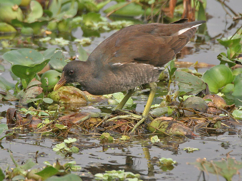 Common Moorhen (Gallinula chloropus) in Kolkata, West Bengal, India.